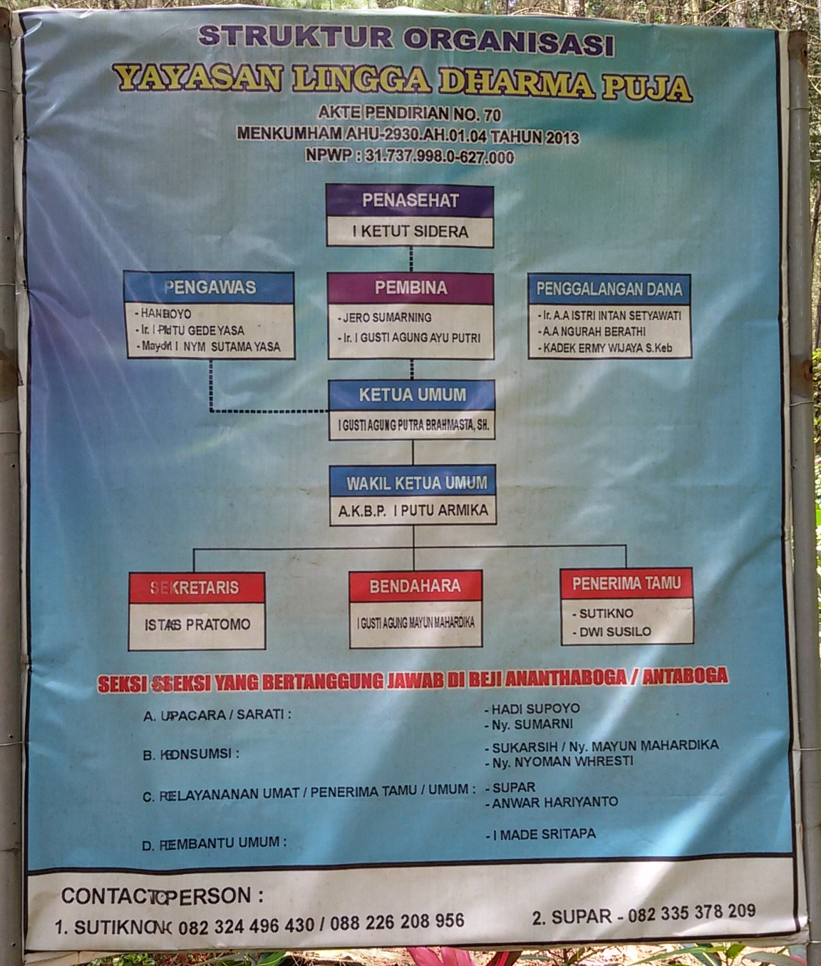 Lingga Dharma Puja Foundation (2016)